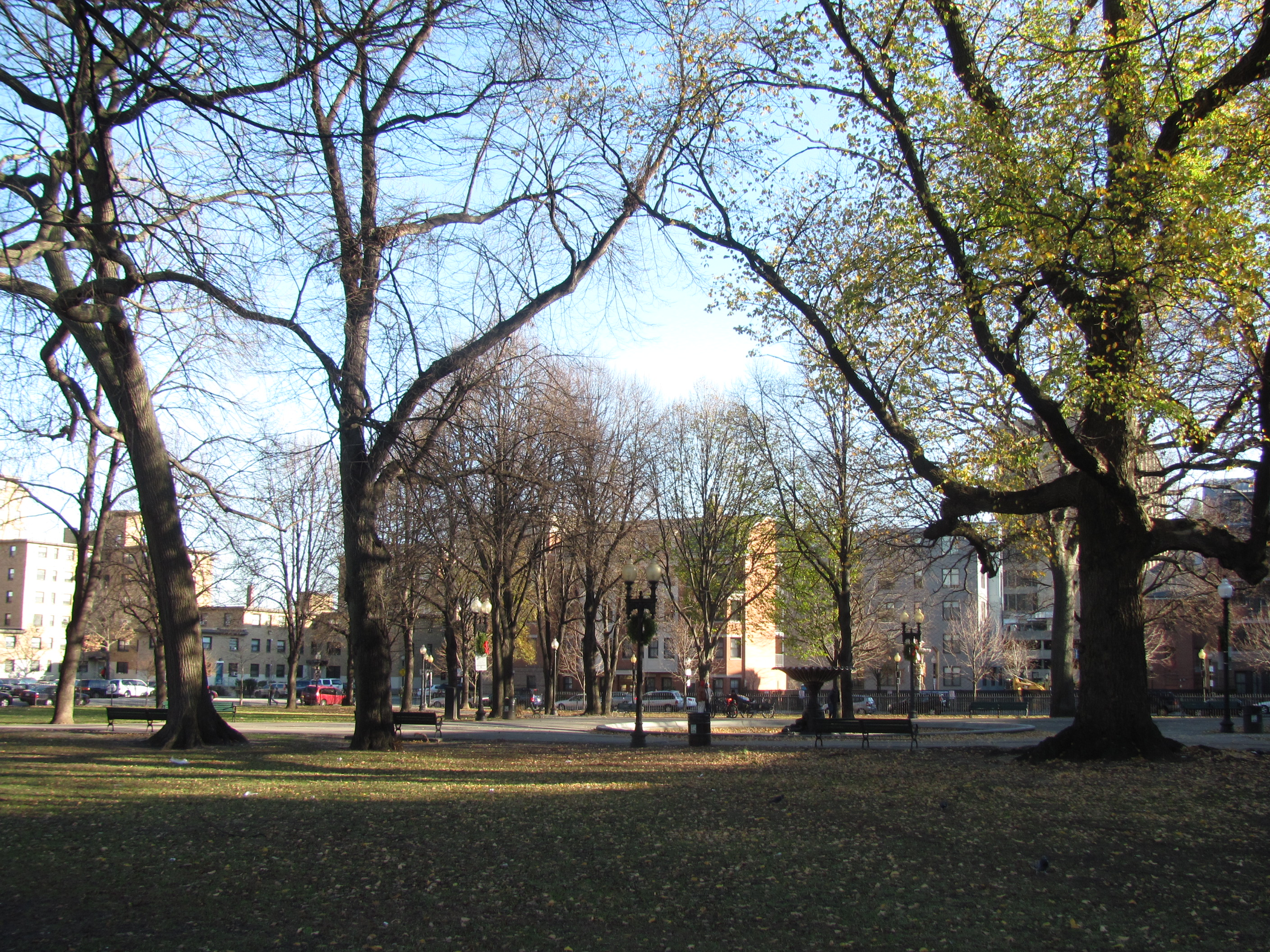 Franklin Square, South End, Boston Massachusetts